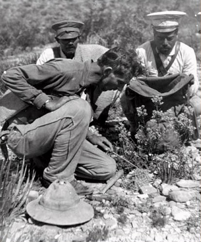 Alberto Vojtech Frič in Mexico (~ 1923) Lophophora